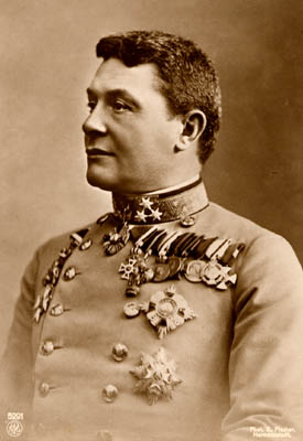 Baron Hermann von Kövess of Kövessháza, Field Marshal of the K.u.K. Austro-Hungarian Army, the last supreme commander of the armed forces of the Austro-Hungarian Monarchy